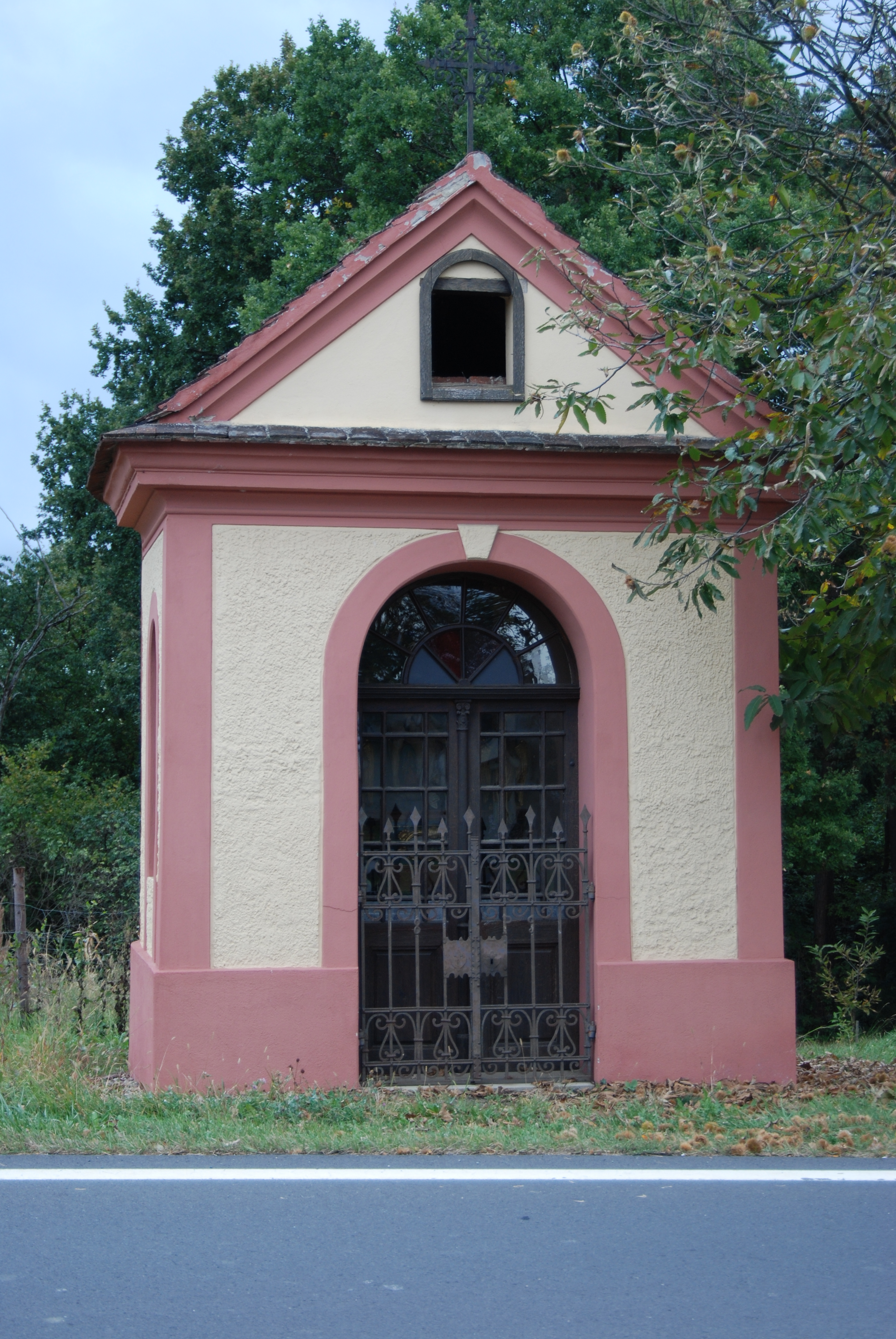 Marienkapelle Burgauberg